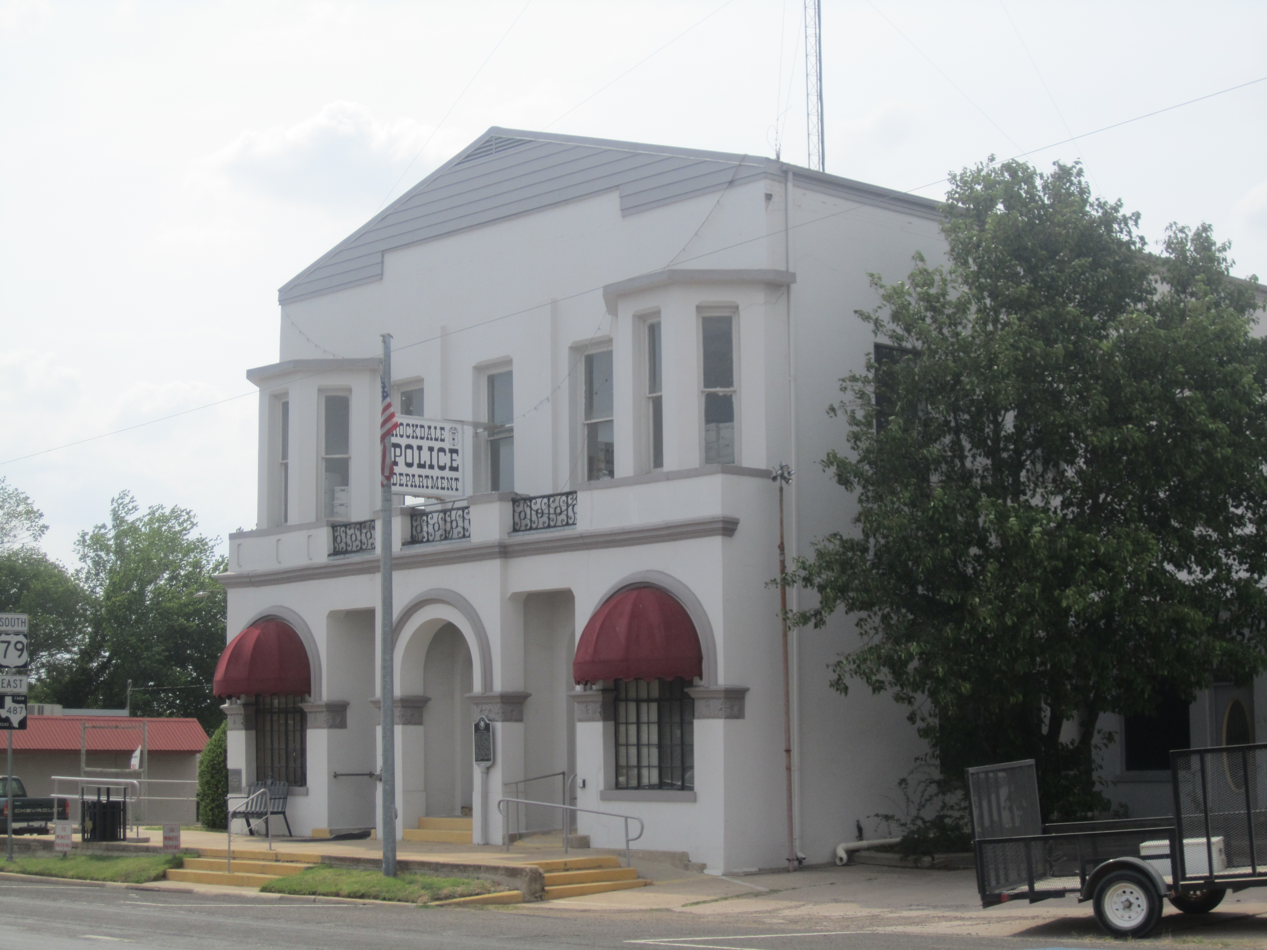 I took photo with Canon camera in Rockdale, TX, of the police department office.